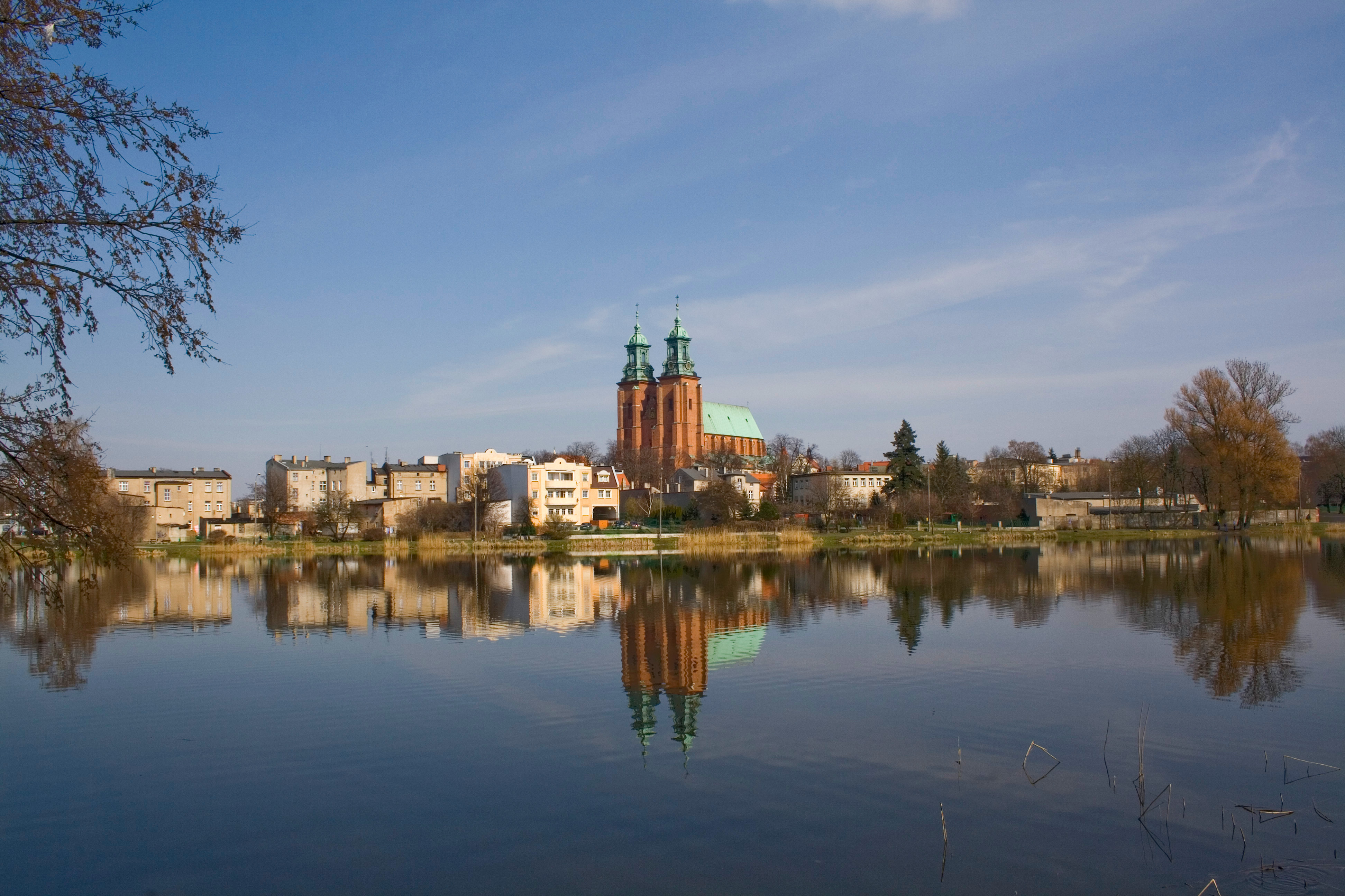 Exterior of the Gniezno Cathedral, Gniezno, Poland